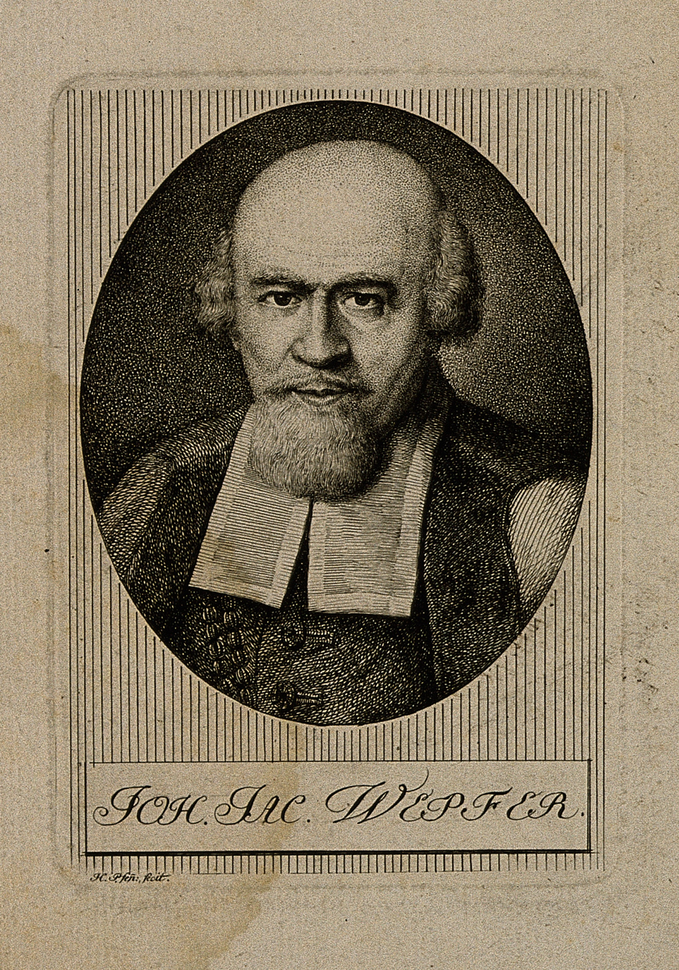 Johann Jakob Wepfer. Engraving by H. Pfenninger. Iconographic Collections Keywords: intaglio prints; portrait prints; Johann Jakob Wepfer